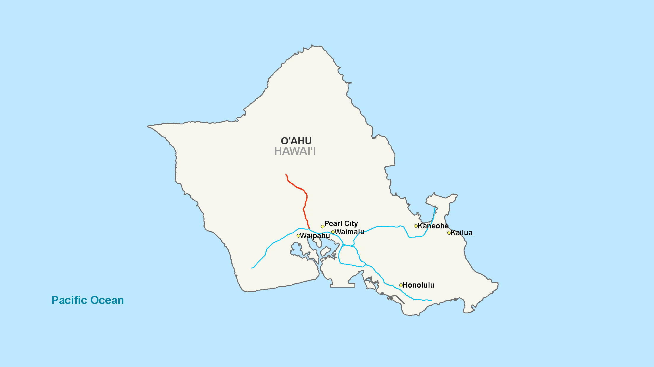 Map of Interstate H2